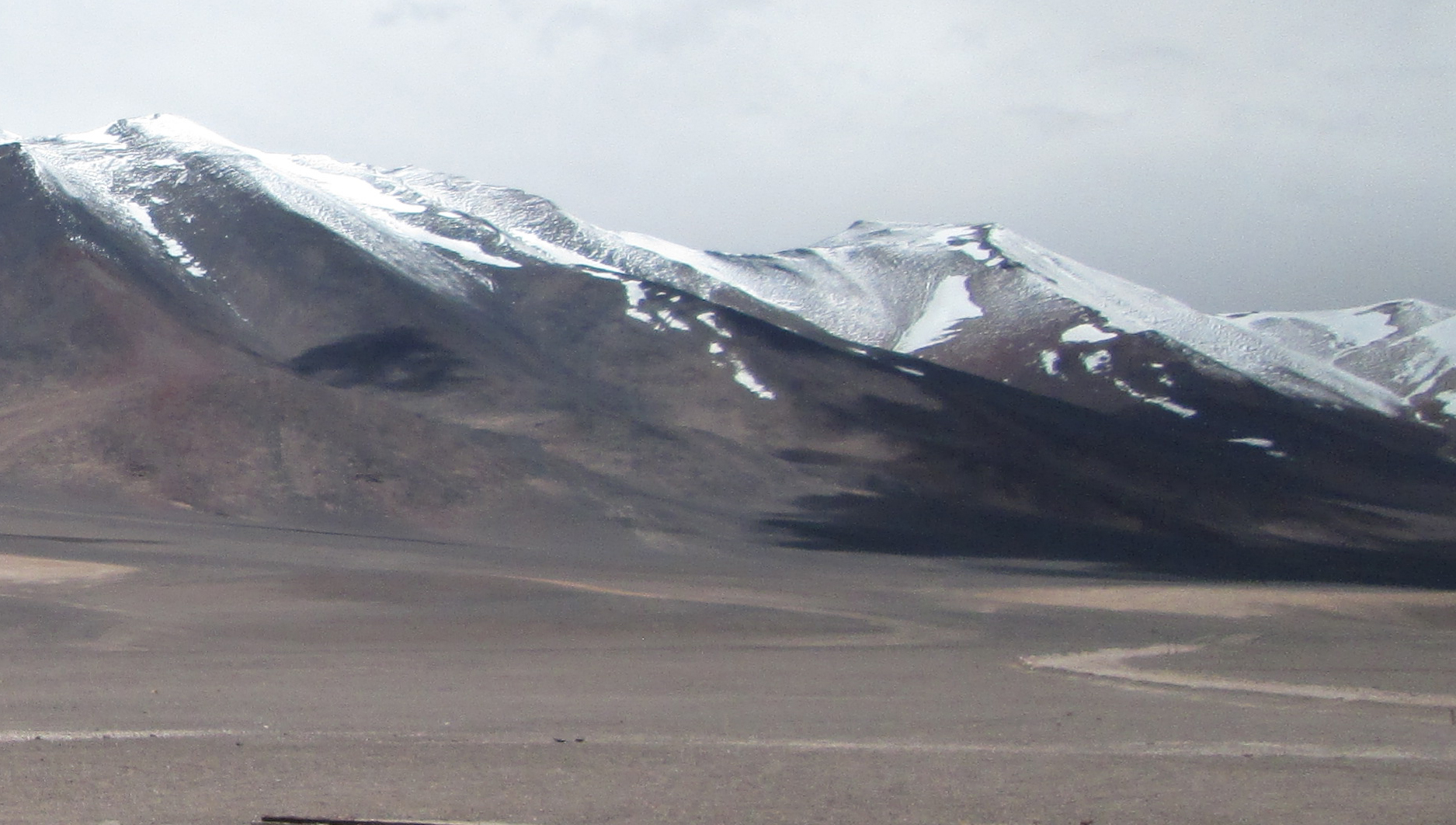 Barrancas Blancas from the northeast, near the Laguna Verde.